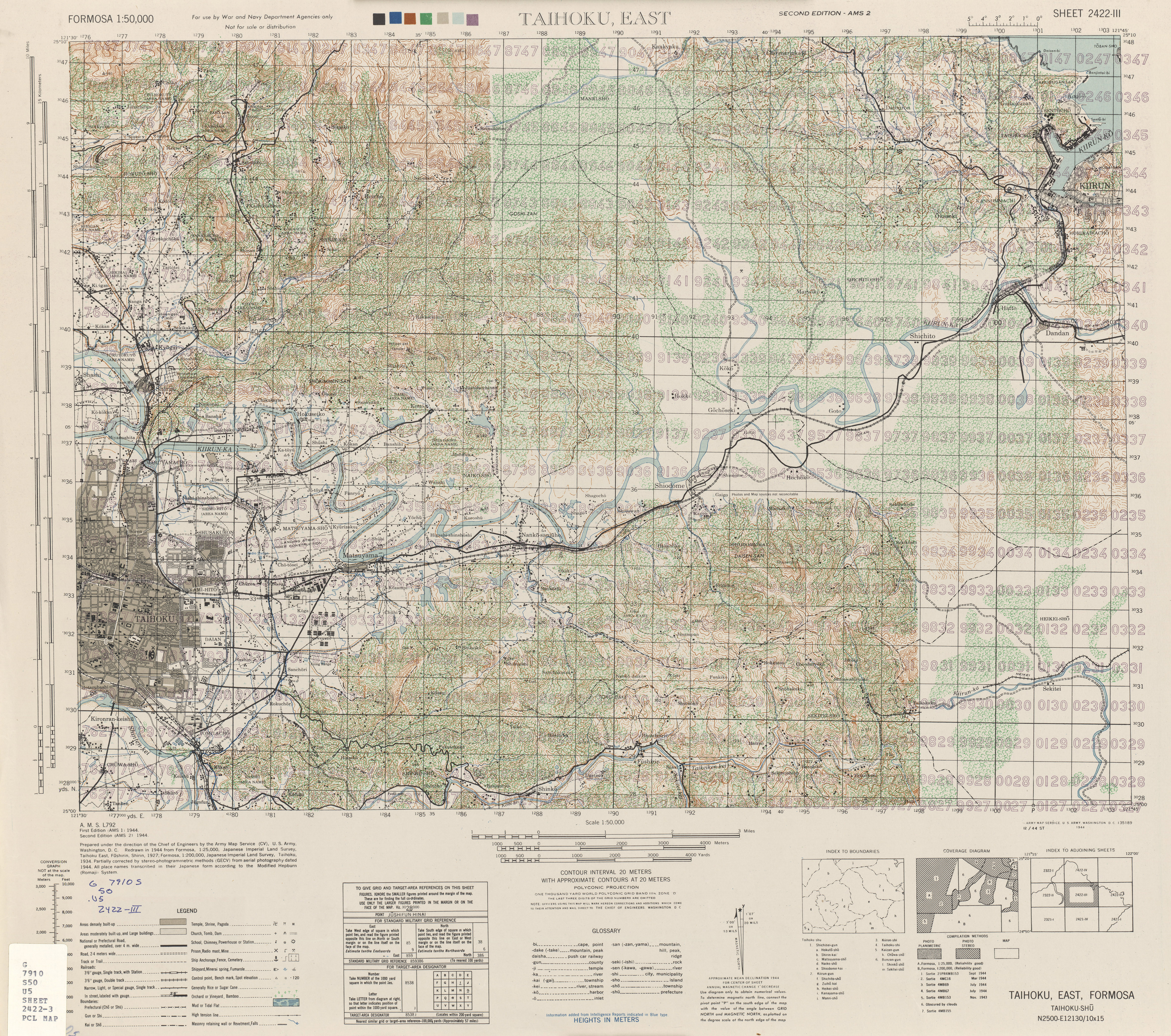 Map from Formosa (Taiwan) 1:50,000 AMS Series L792